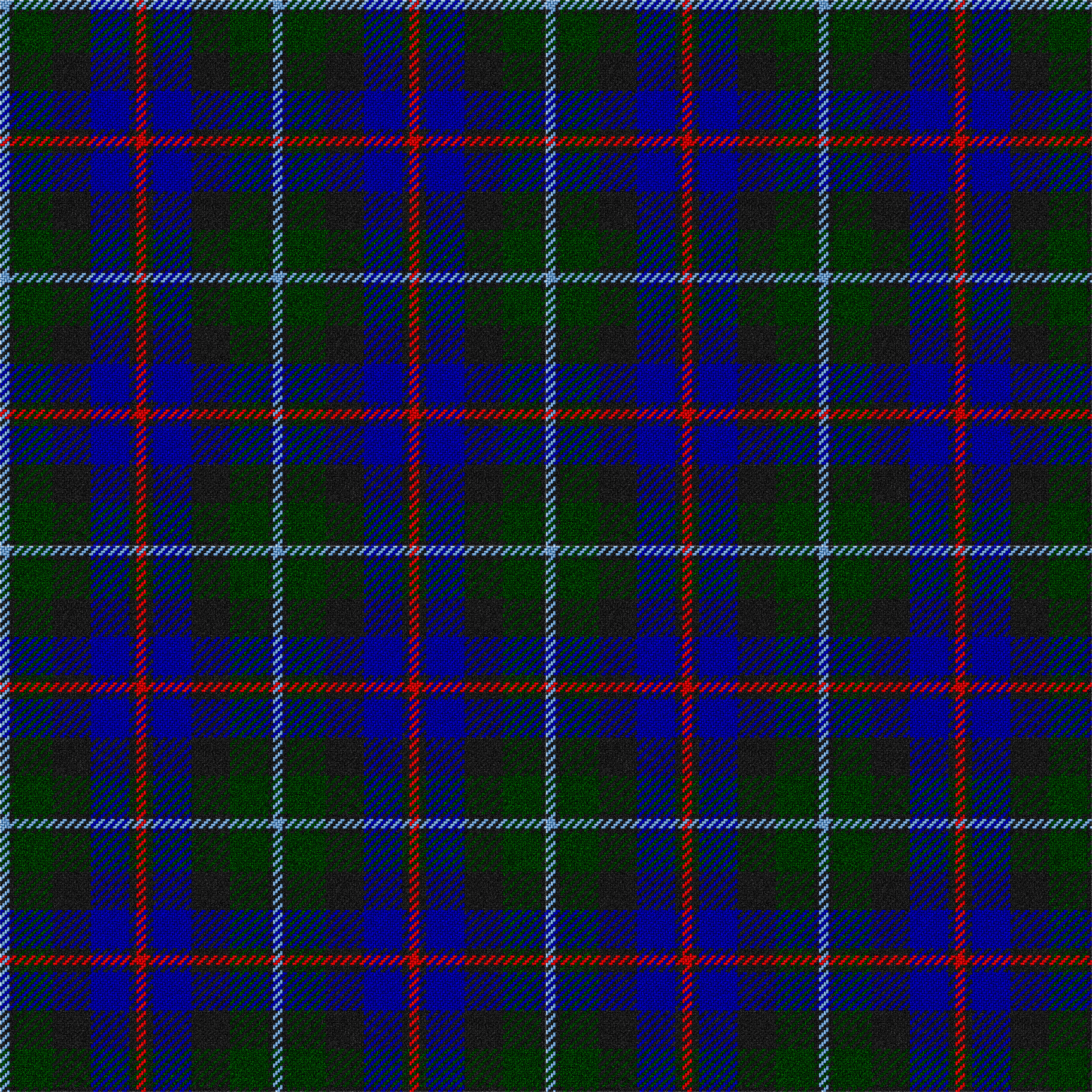 A digital representation of the Campbell of Cawdor tartan. Image made with Adobe Photoshop CS2. Thread count used to create this image: A4-K2-G16-K16-B16-K2-R4. The tartan did not originally have a name, until it was called an "Argyle" tartan in 1789. Not until W. and A. Smith's book in 1850 was this tartan actually named "Campbell of Cawdor". The tartan is authorised as one of the official clan tartans of Clan Campbell, by the current clan chief the Duke of Argyll. [1]